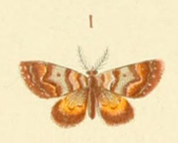 Lythria siris (current name Arctesthes siris) by George Vernon Hudson. Illustration accompanying original description of species.